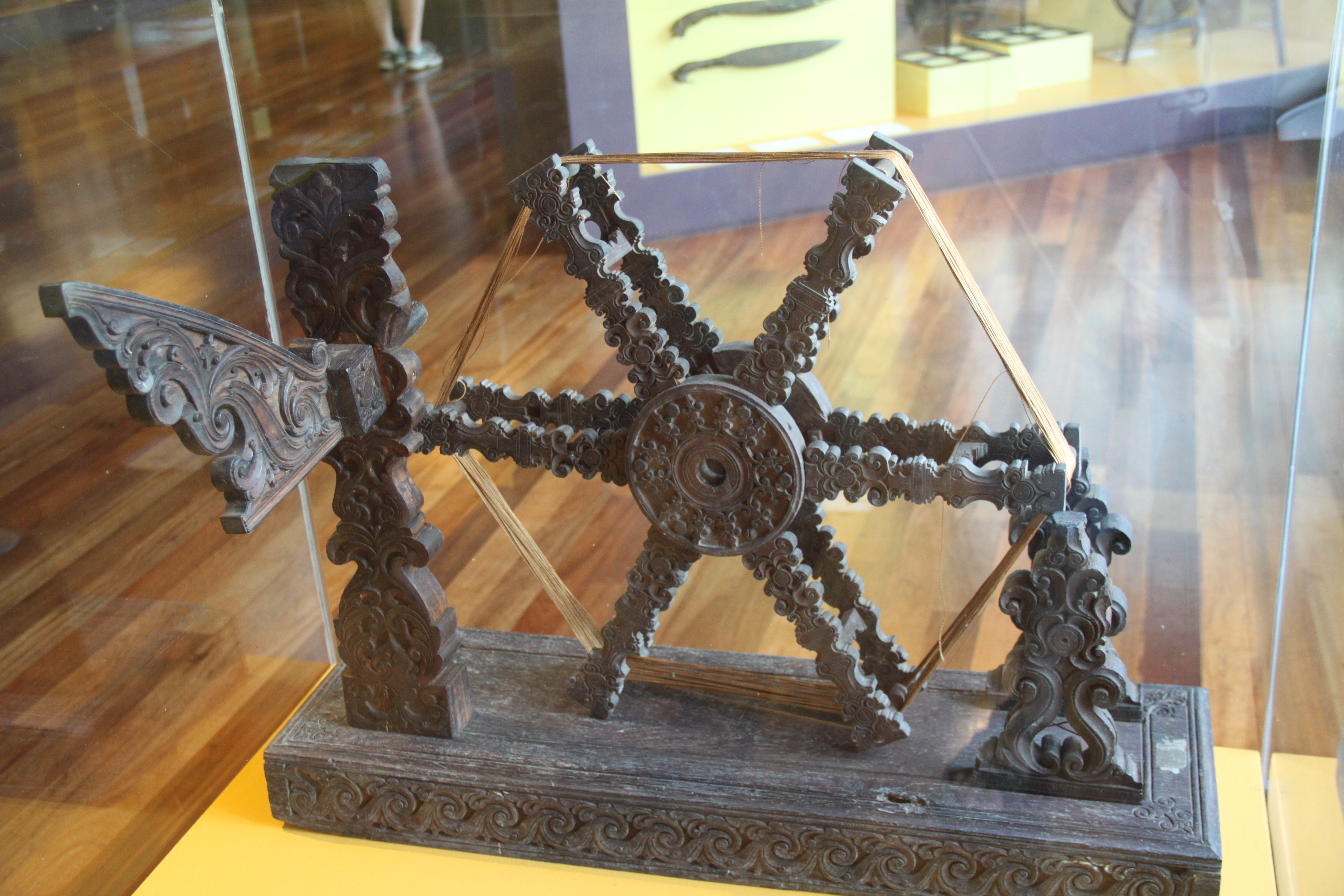 Bangsamoro and Lumad Cultures Gallery, Museum of the Filipino People, Rizal Park, Manila, Philippines. Complete indexed photo collection at .